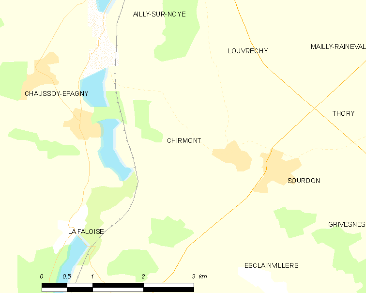 Map of French municipality Chirmont